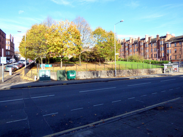 Thornwood Park Glasgow, Great Britain